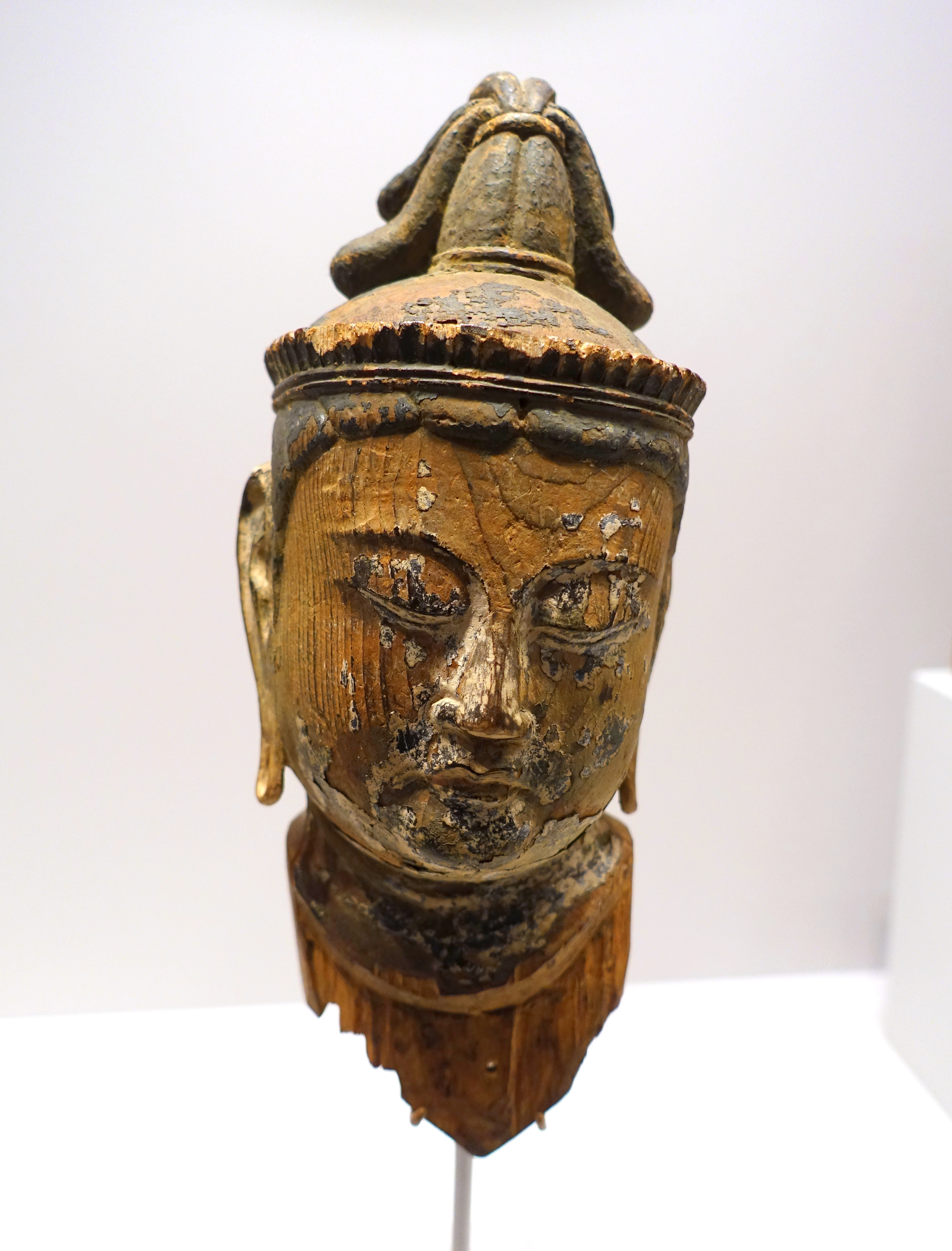 Exhibit in the Arthur M. Sackler Museum, Harvard University, Cambridge, Massachusetts, USA. This artwork is in the public domain because the artist died more than 70 years ago.